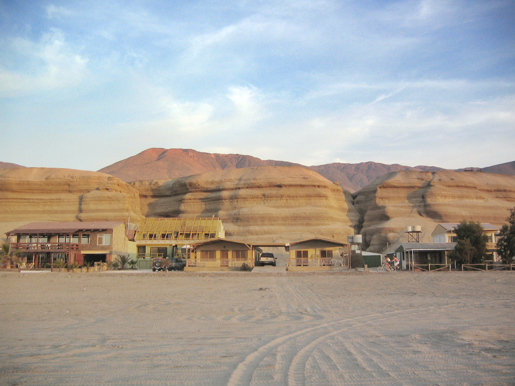 Facing row of houses from the shore.